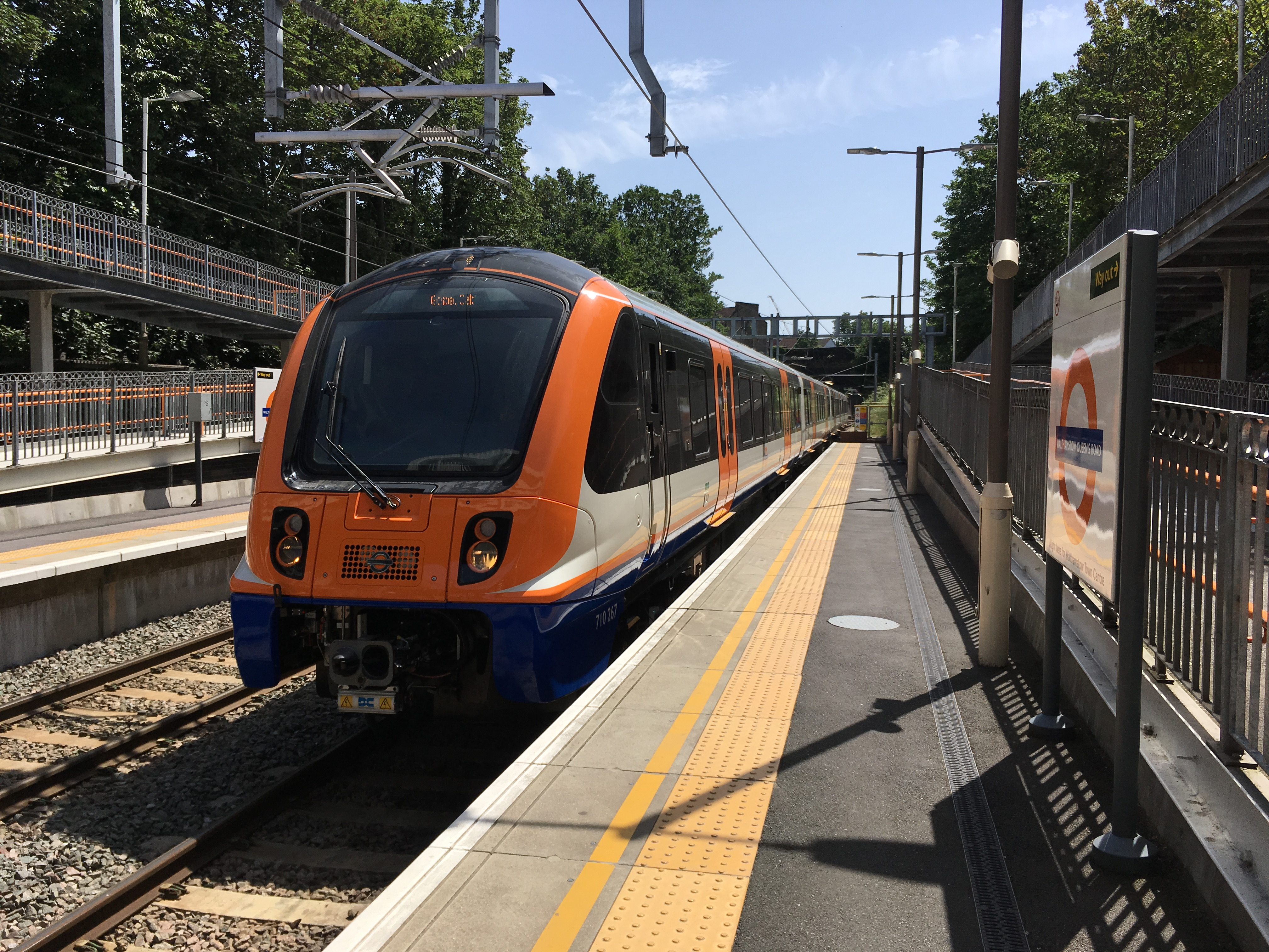 A London Overground Class 710 at Walthamstow Queen's Road